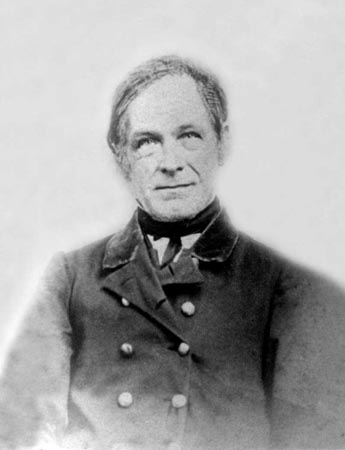 Laurynas Ivinskis (1810-1881) Lithuanian teacher, publisher, translator and lexicographer, originated from Samogitian noble family